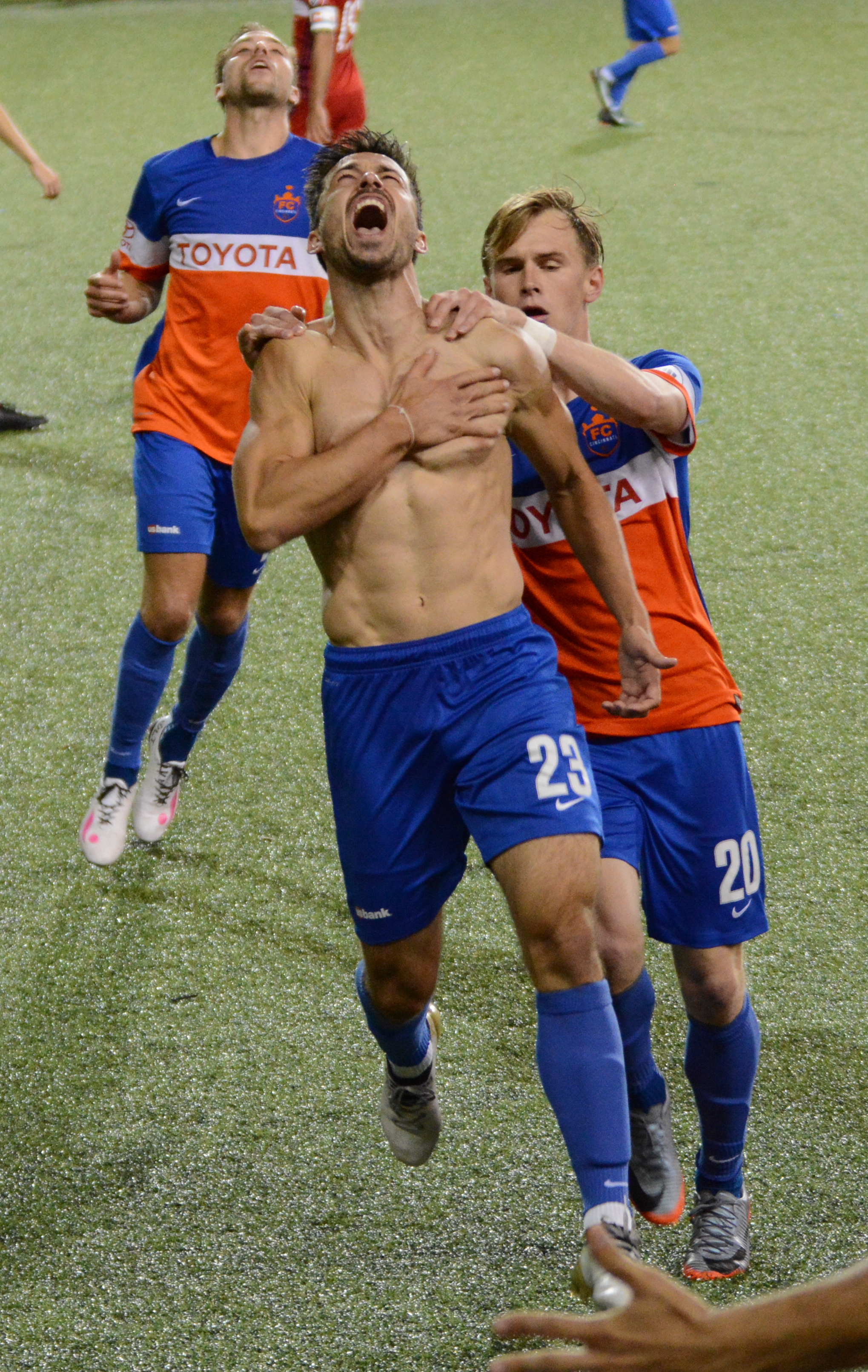 Andrew Wiedeman celebrates a goal he believes he's just scored by ripping off his jersey, unaware that the linesman has ruled him offsides. Taken at a 2017 Lamar Hunt U.S. Open Cup match between FC Cincinnati and Chicago Fire SC at Nippert Stadium in Cincinnati, Ohio on June 28, 2017.